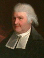 Massachusetts Supreme Judicial Court justice and Governor Increase Sumner